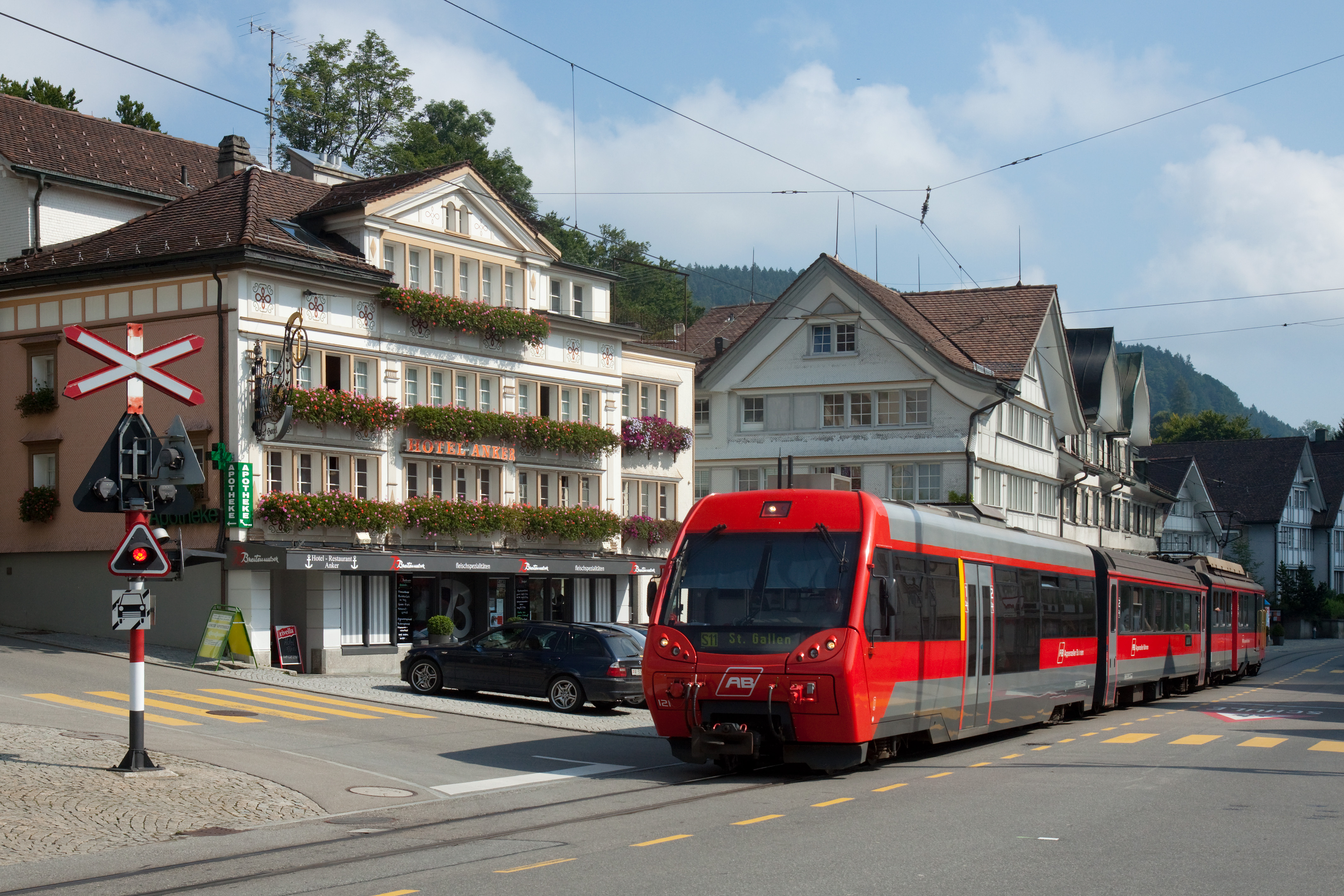 Appenzeller Bahnen push-pull train running on the main street through Teufen. A low-floor ABt control car is leading, while a BDeh 4/4 rack motor coach is pushing at the rear.